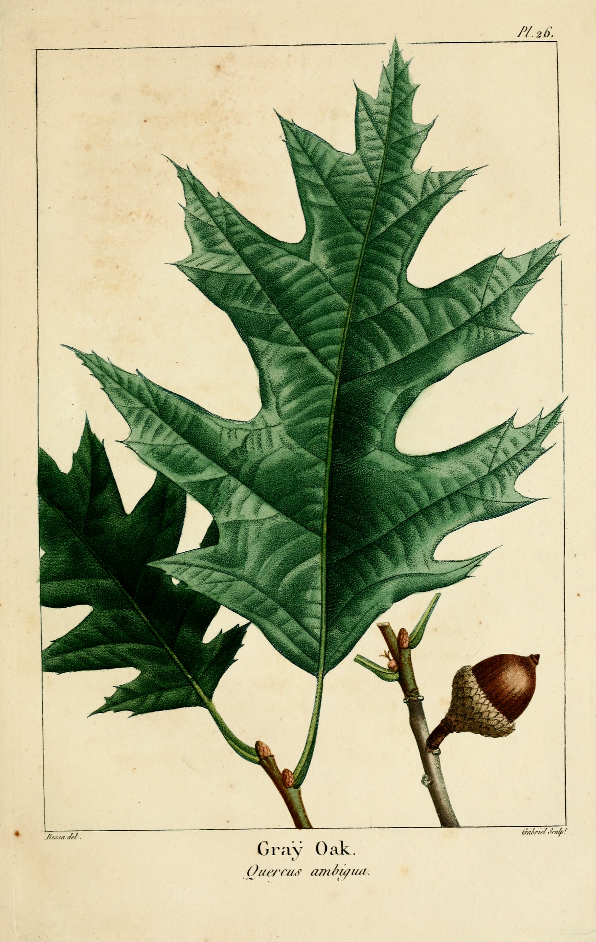 Quercus rubra (Caption: Graÿ Oak Quercus ambigua)